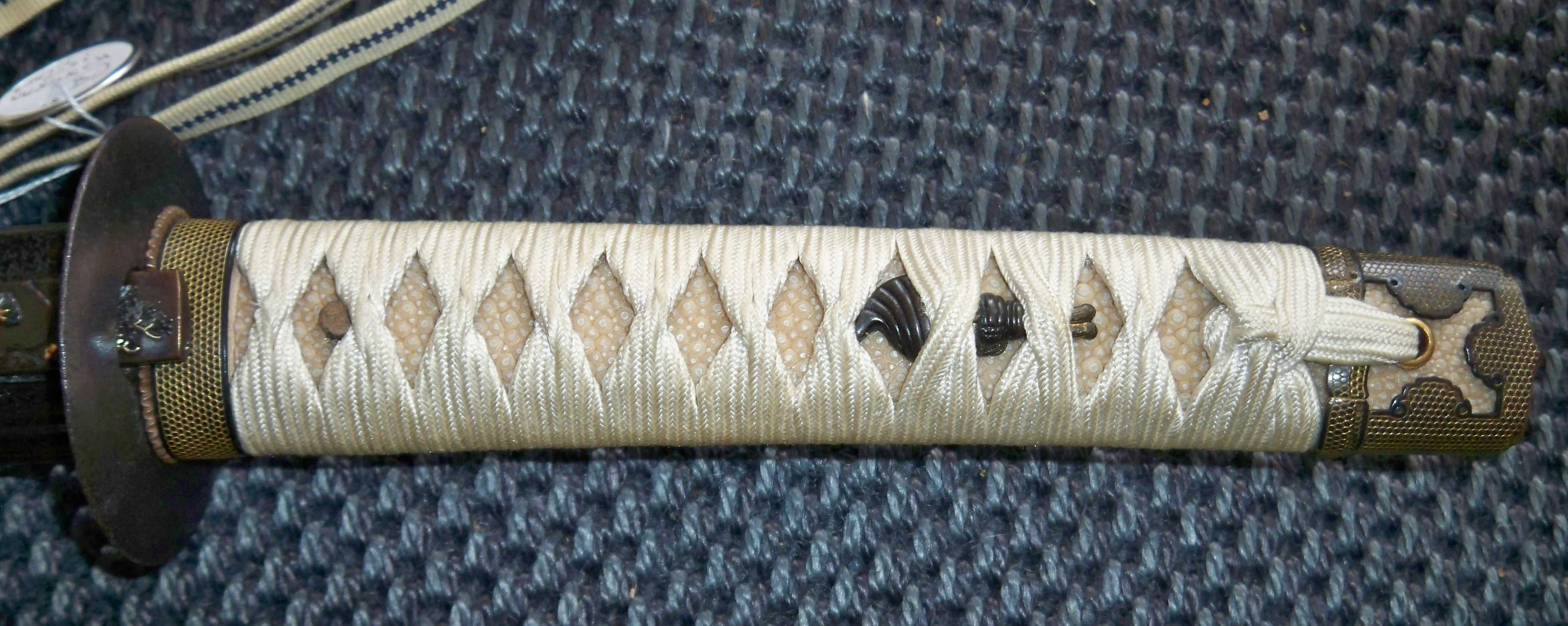 Antique Japanese (samurai) katana tsuka.